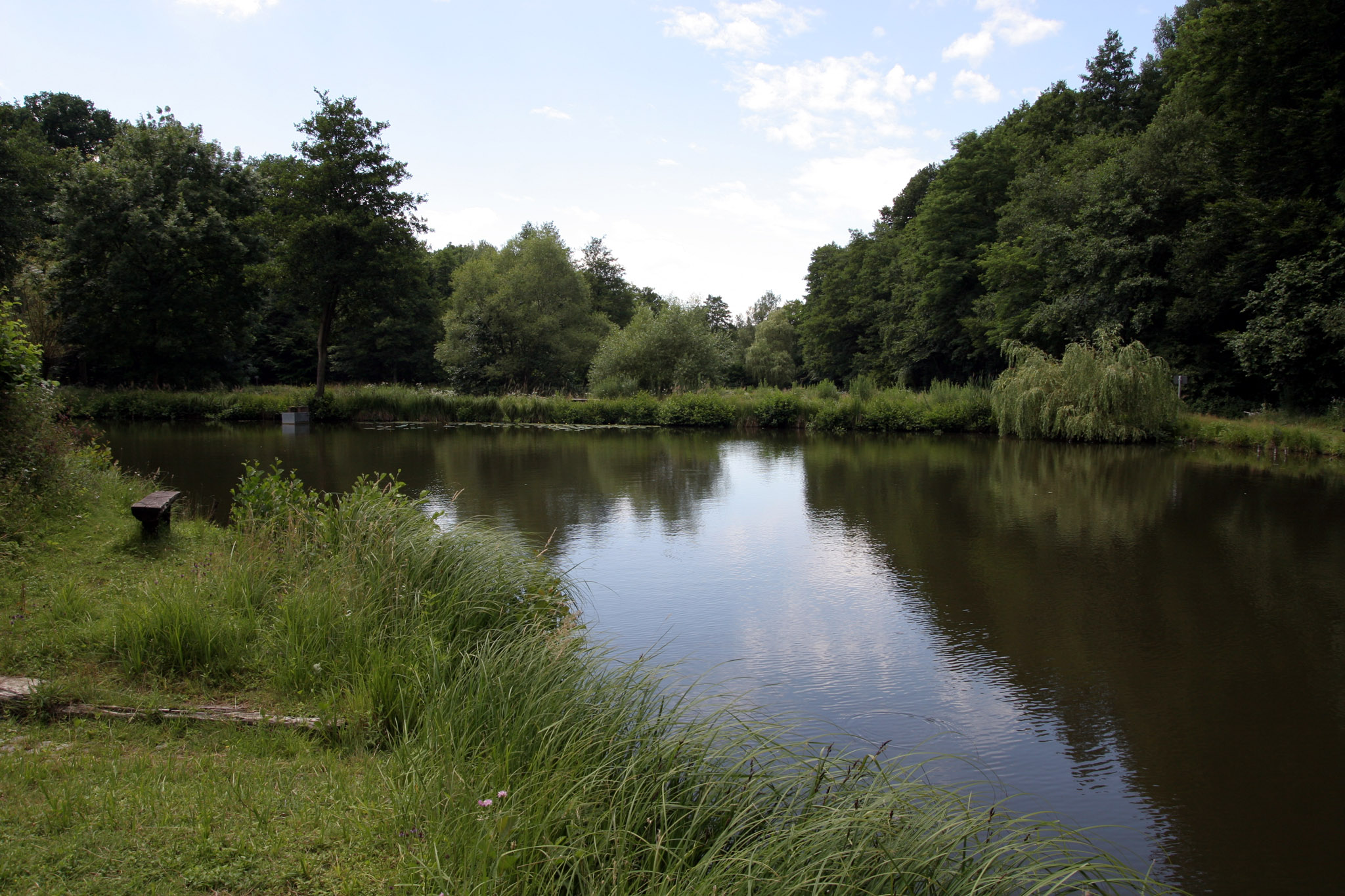 The Fischerteiche (fisching ponds), crossed by the creek Darmbach (Hesse, Germany)